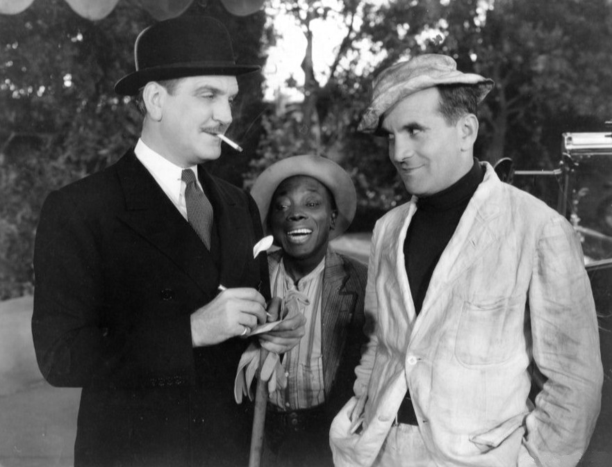 Photo of Frank Morgan, Edgar Conner, and Al Jolson from the 1933 film Hallelujah, I'm a Bum.